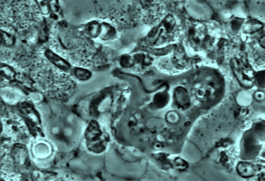 Exonucleophagy - Completion of exonucleophagy process. Note that PMN nucleous is inside the amiba Entamoeba gingivalis pathogen and this leaves uncontrolled PMN typical of periodontal destruction.